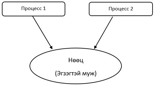 2 Process equals to critical session.